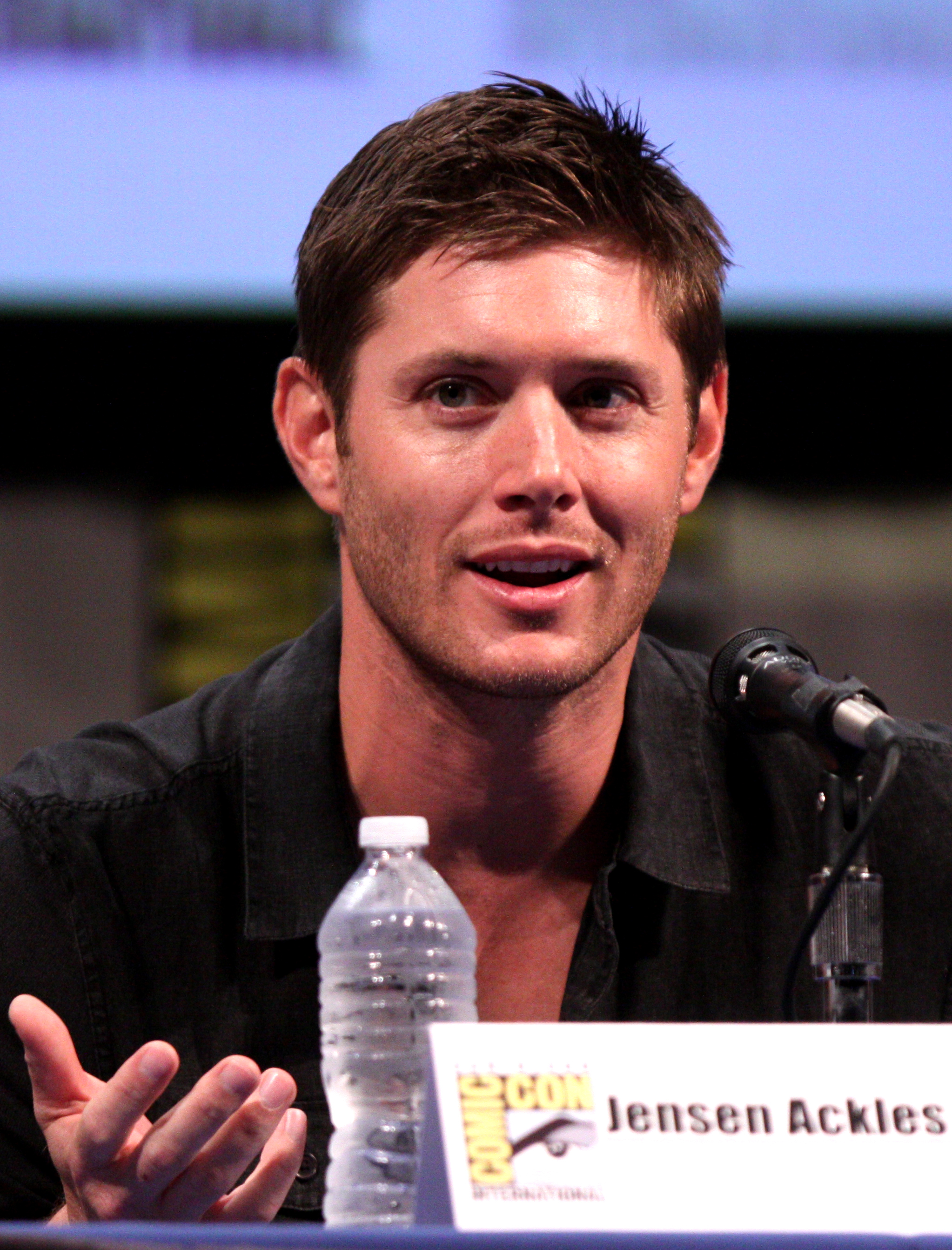 Jensen Ackles at the 2011 Comic Con in San Diego